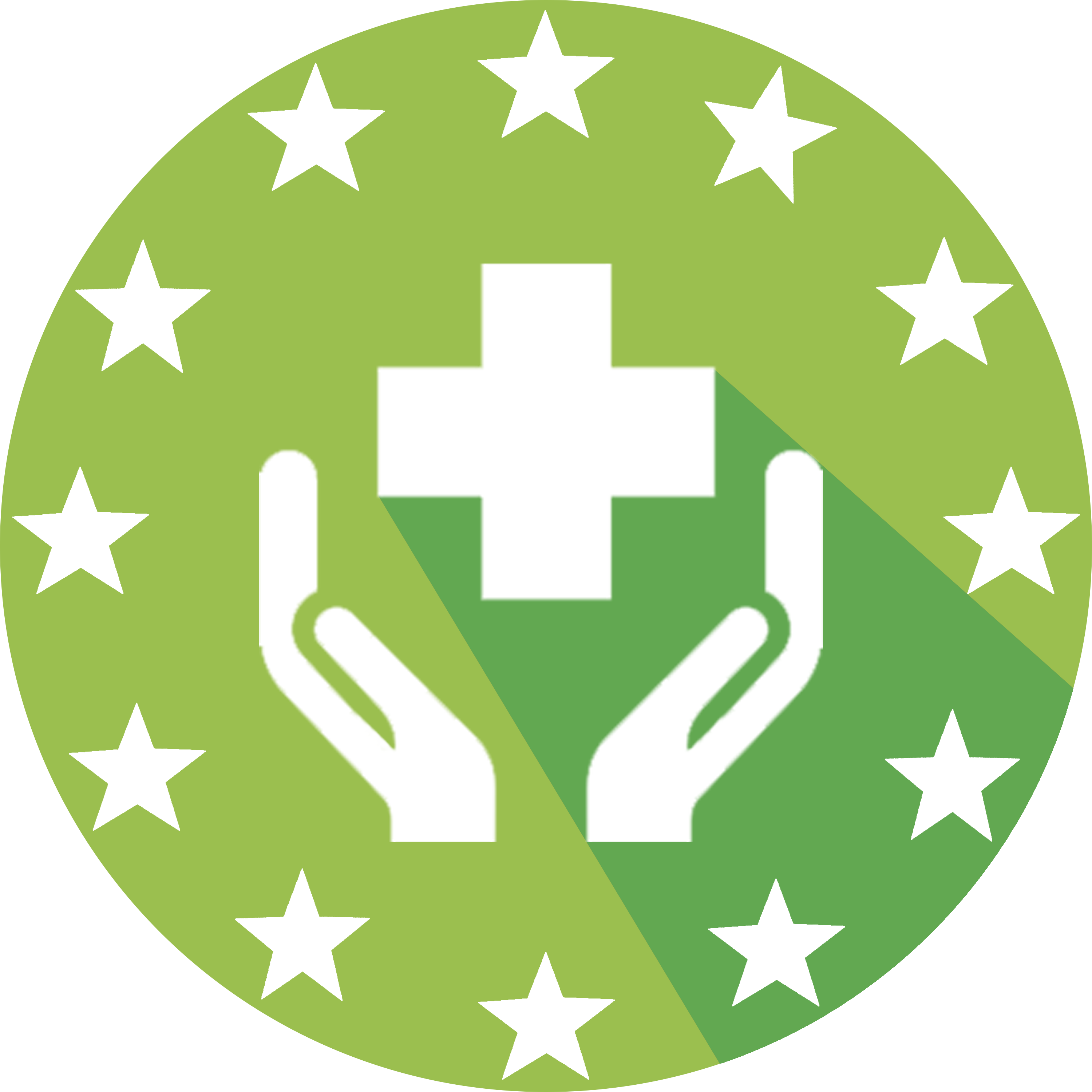 EMSA Public Health Pillar Logo